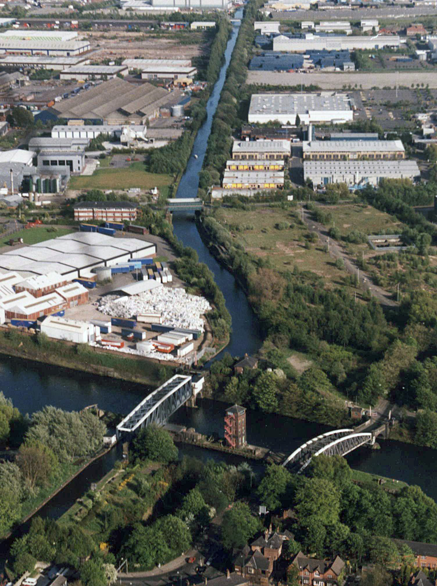 Barton-on-Irwell showing (left) the swing-aqueduct carrying the Bridgewater Canal over the Manchester Ship Canal and (right) the Barton road bridge. Taken on 11.05.02 looking SE.